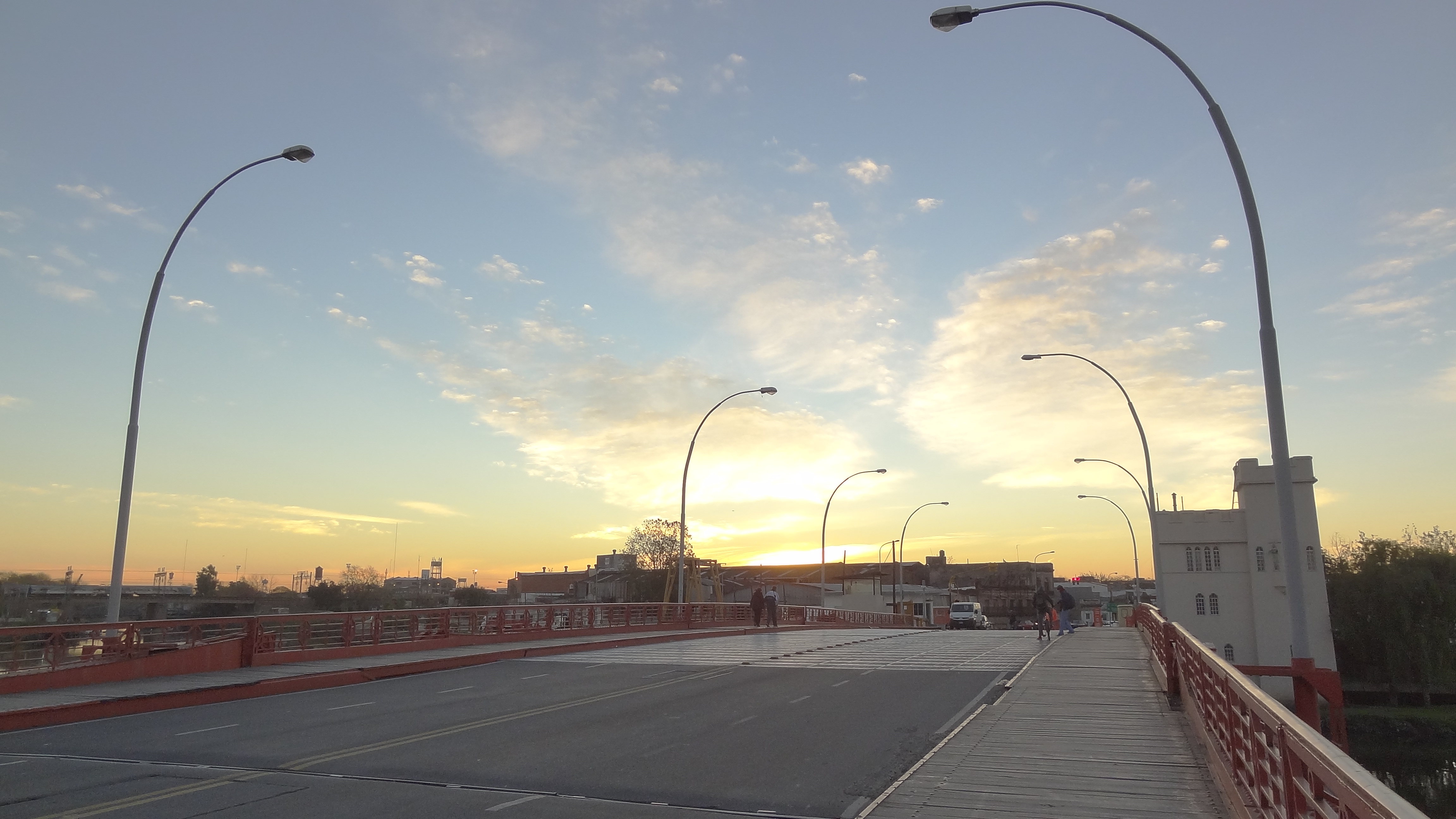 Pueyrredon Bridge over the Riachuelo river, looking at Barracas.